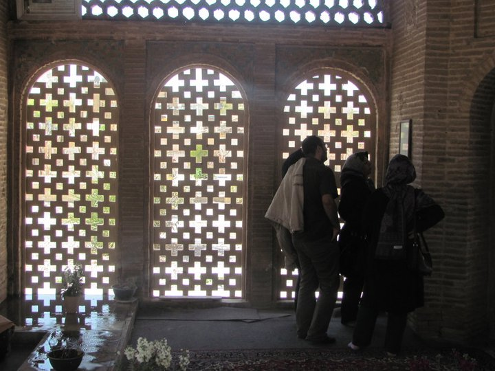 Tomb of Nooroddin — in Isfahan.